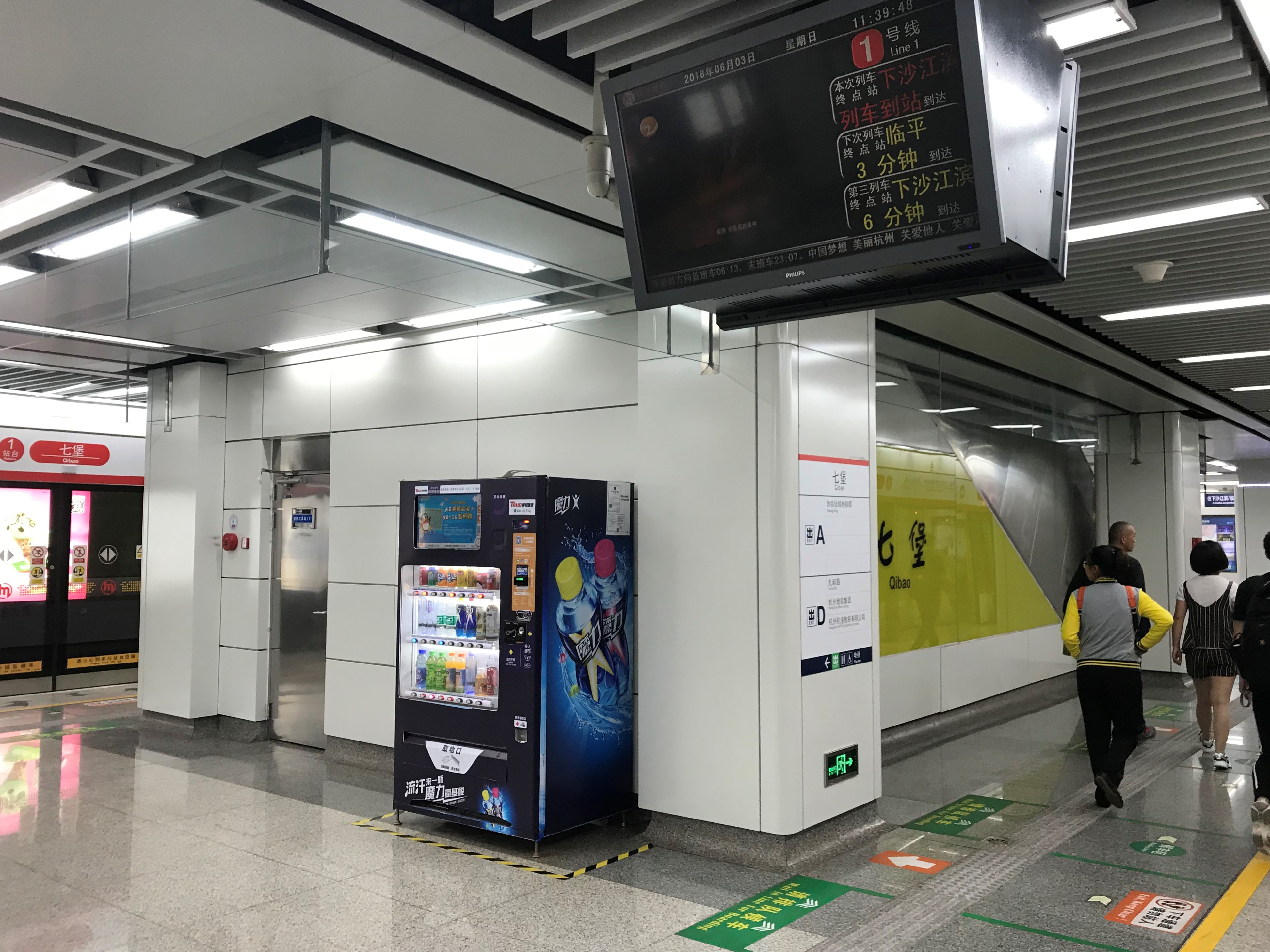 201806 Nameboard of Qibao Station